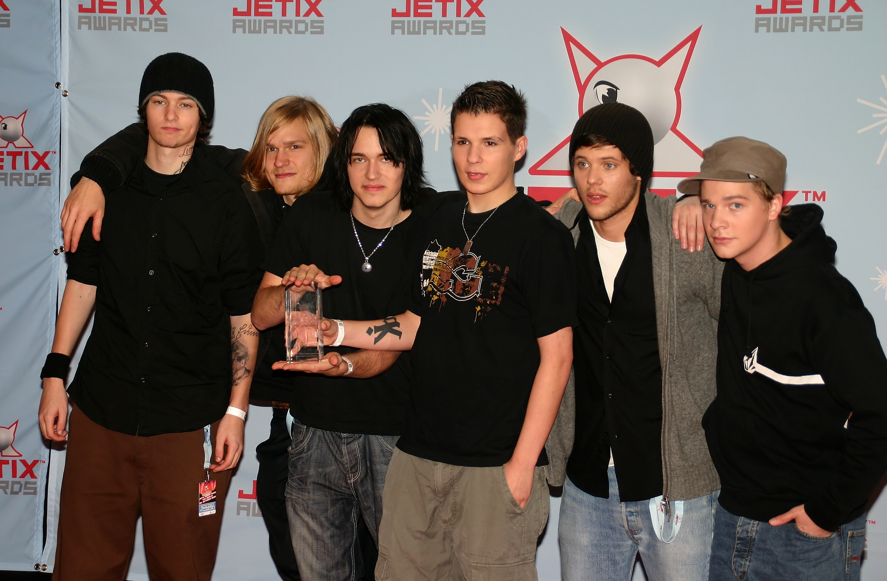 Rockband Panik during the conferment of the JETIX Award at the youth fair "YOU", Berlin